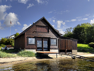 Photo of Gallery Skjæveland